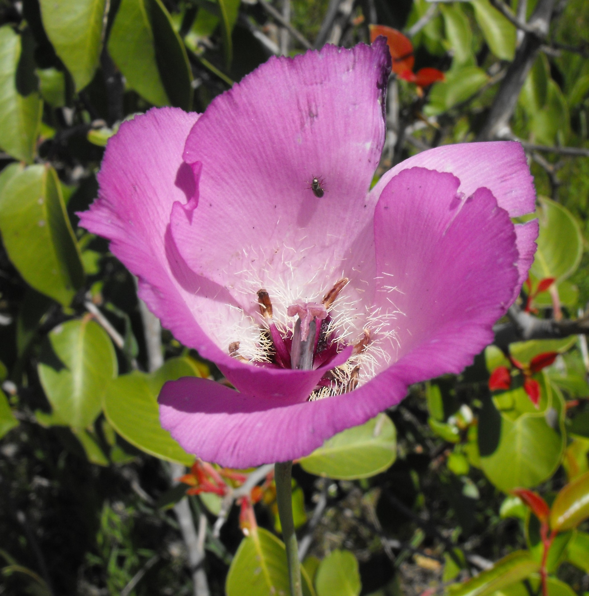 'Calochortus splendens — Splendid Mariposa lily, flower. At Sycamore Canyon, in San Diego, California, U.S.